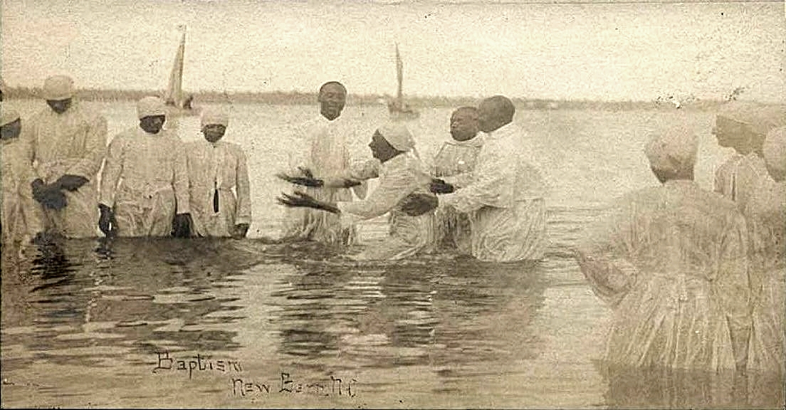 "Wade in the Water." Postcard of a river baptism in New Bern, North Carolina near the turn of the 20th century.